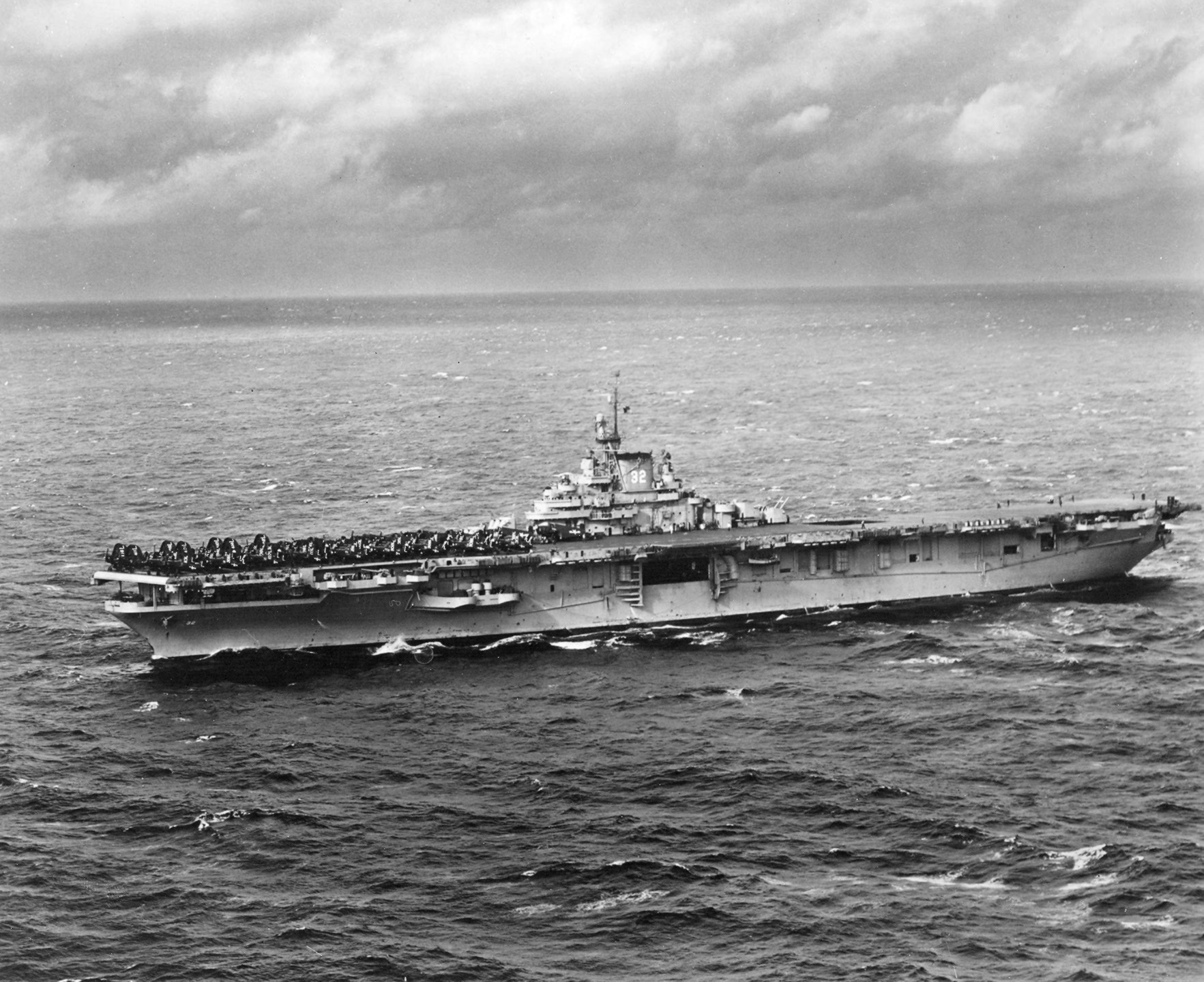 The U.S. Navy aircraft carrier USS Leyte (CV-32) underway with other elements of the 2nd Fleet during "Operation Frigid" in 1948.